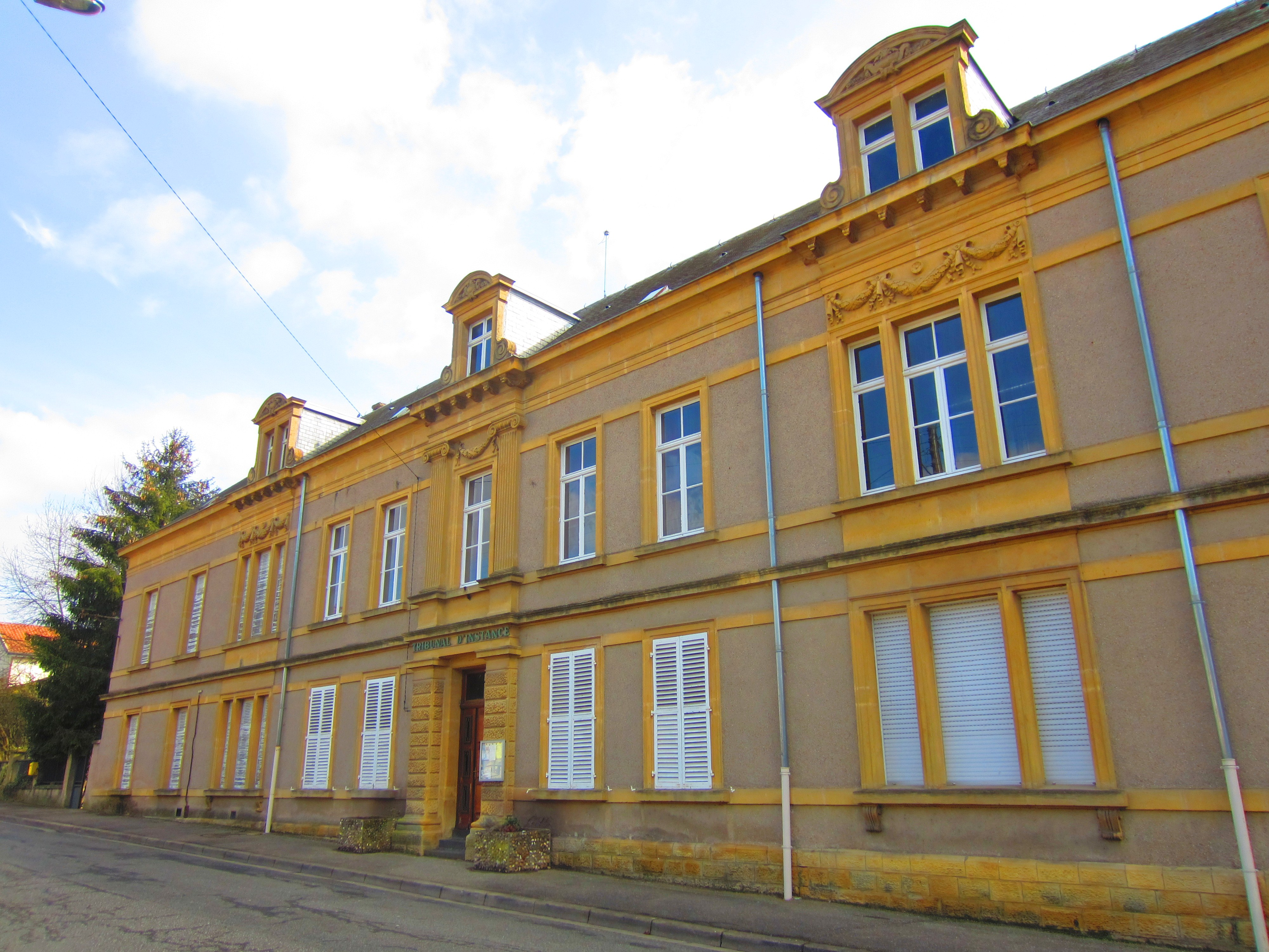 Boulay Moselle court